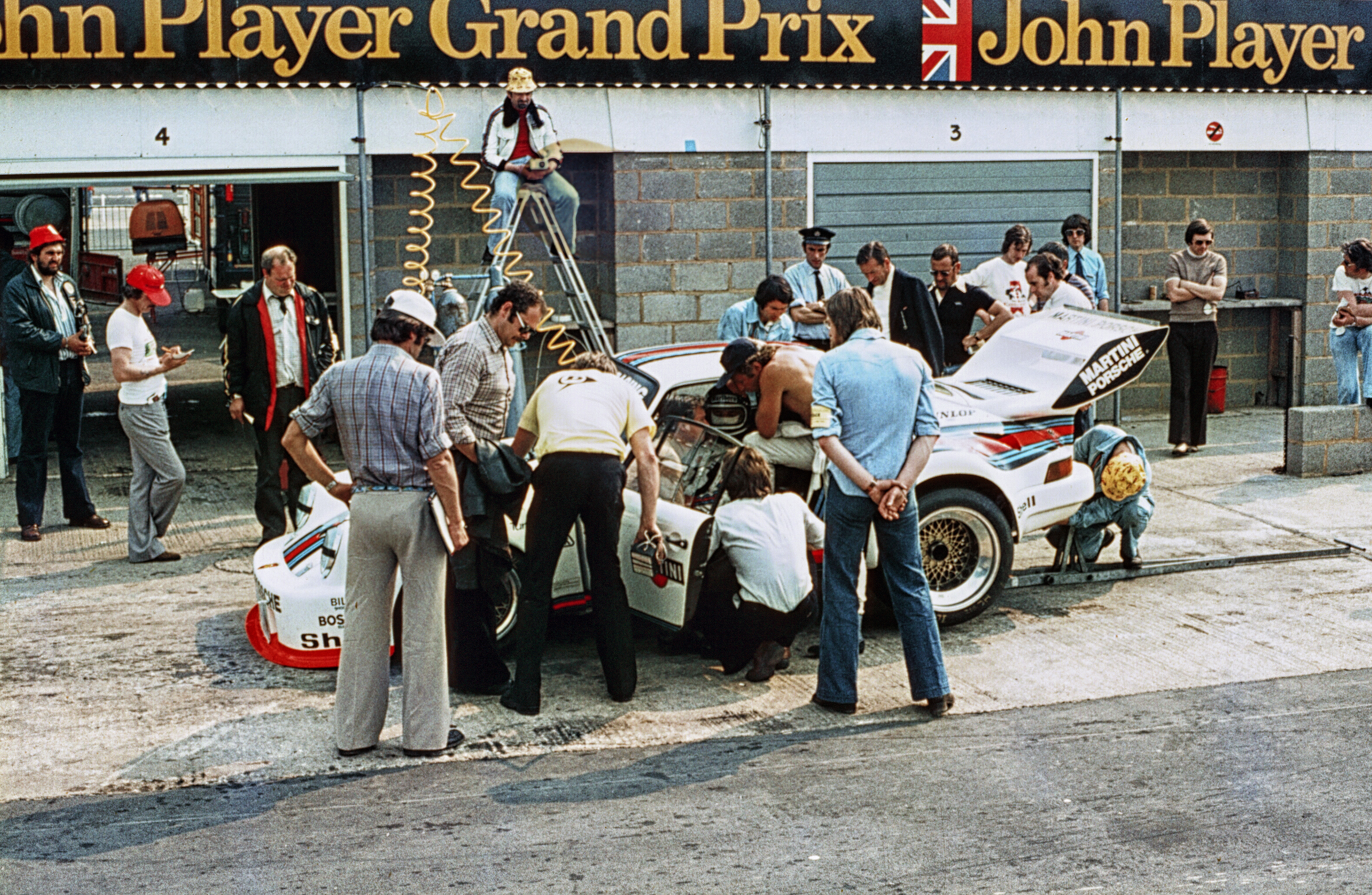 Martini Racing The World Championship For Manufacturers 6 Hours Silverstone